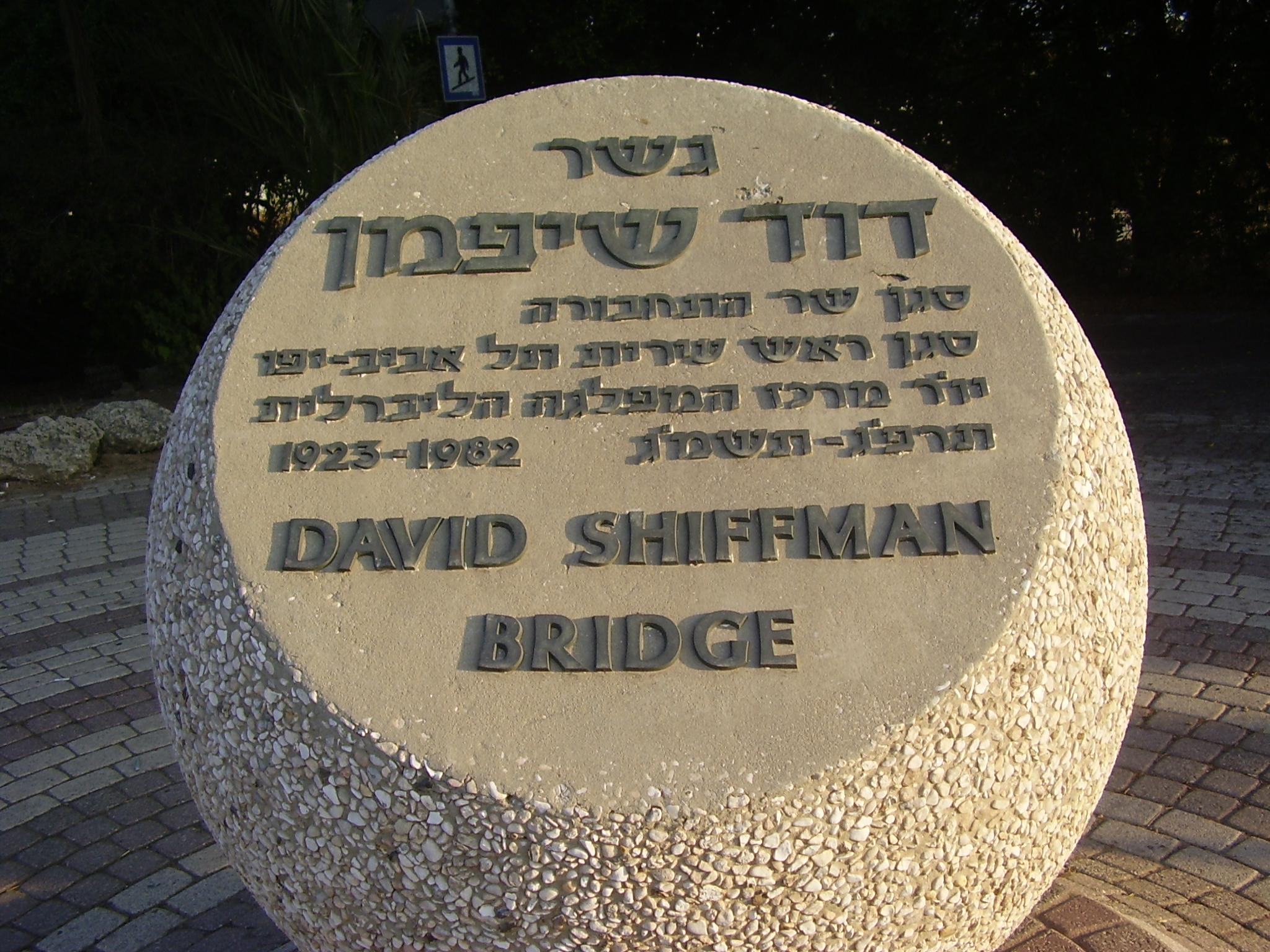 Memorial plaque to David Shiffman in Tel Aviv לוחית זיכרון לדוד שיפמן על גשר דוד שיפמן בתל אביב, ליד תחנת רכבת סבידור מרכז